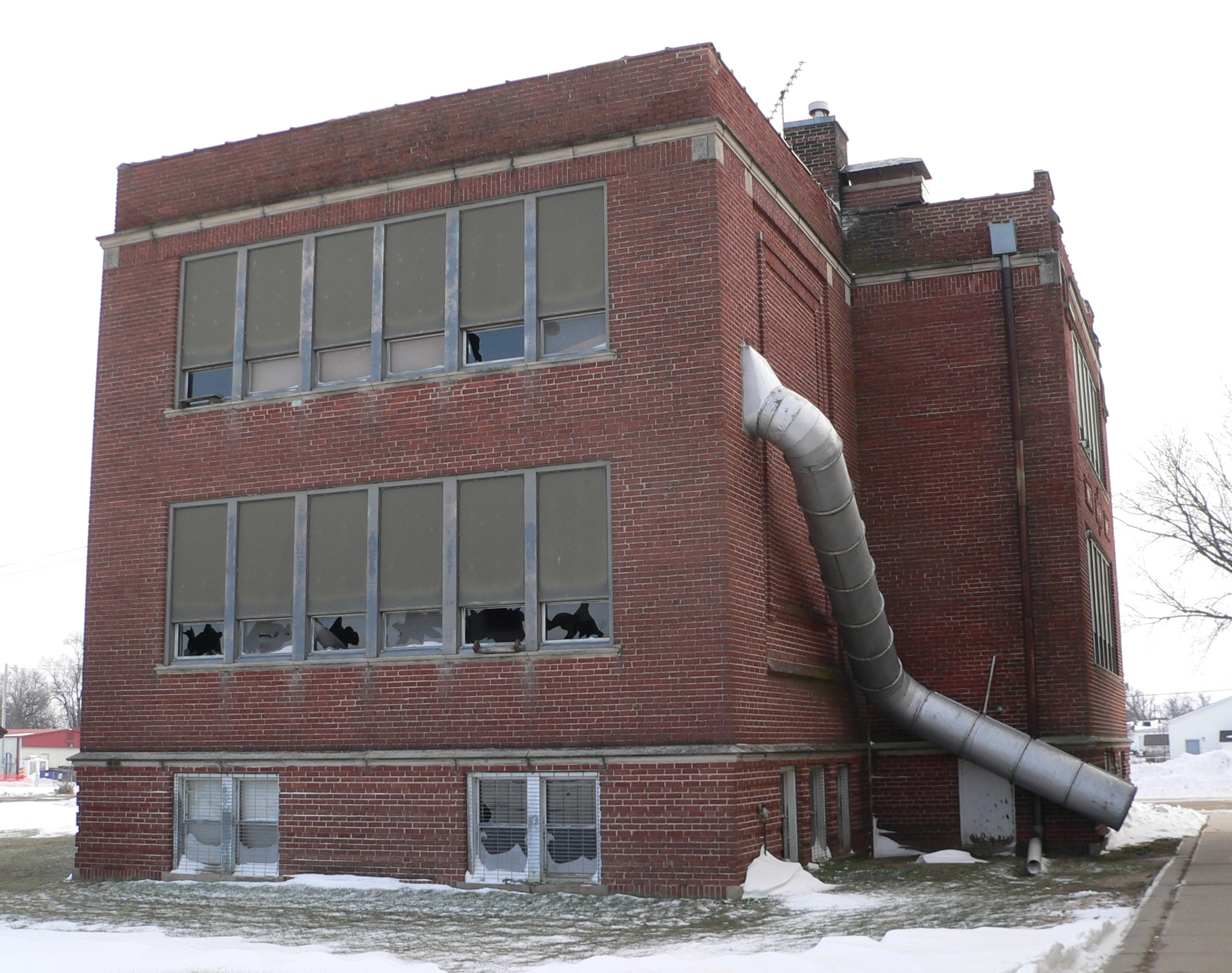 School building in Monroe, Nebraska; seen from the northwest. The building, constructed in 1919, is no longer in use. Note the fire-escape slide.